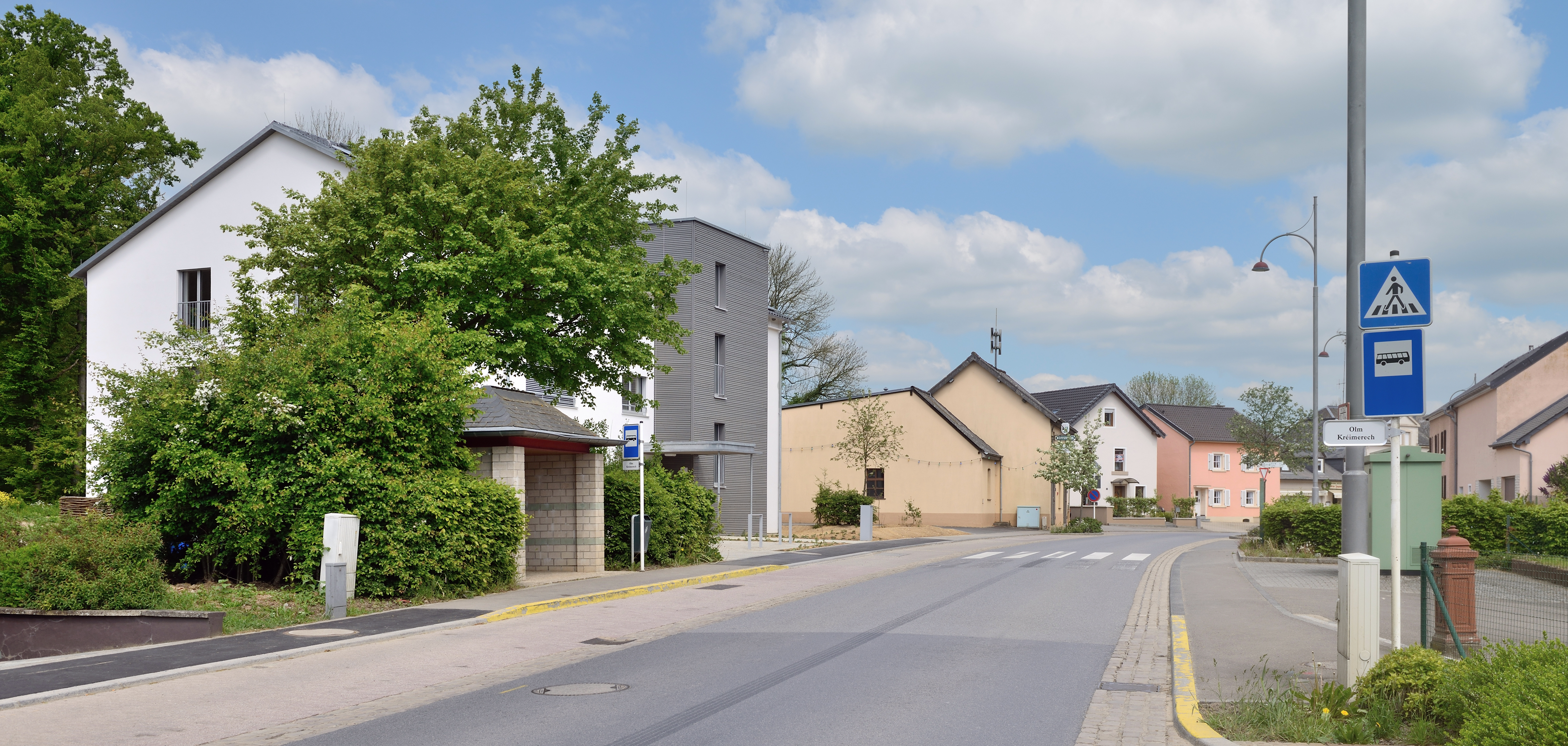 Street view in Olm, Luxembourg, rue de Capellen. At left, the SICONA building and the building with the historic ballroom of the volunteer fire department. The second building was demolished in 2017.